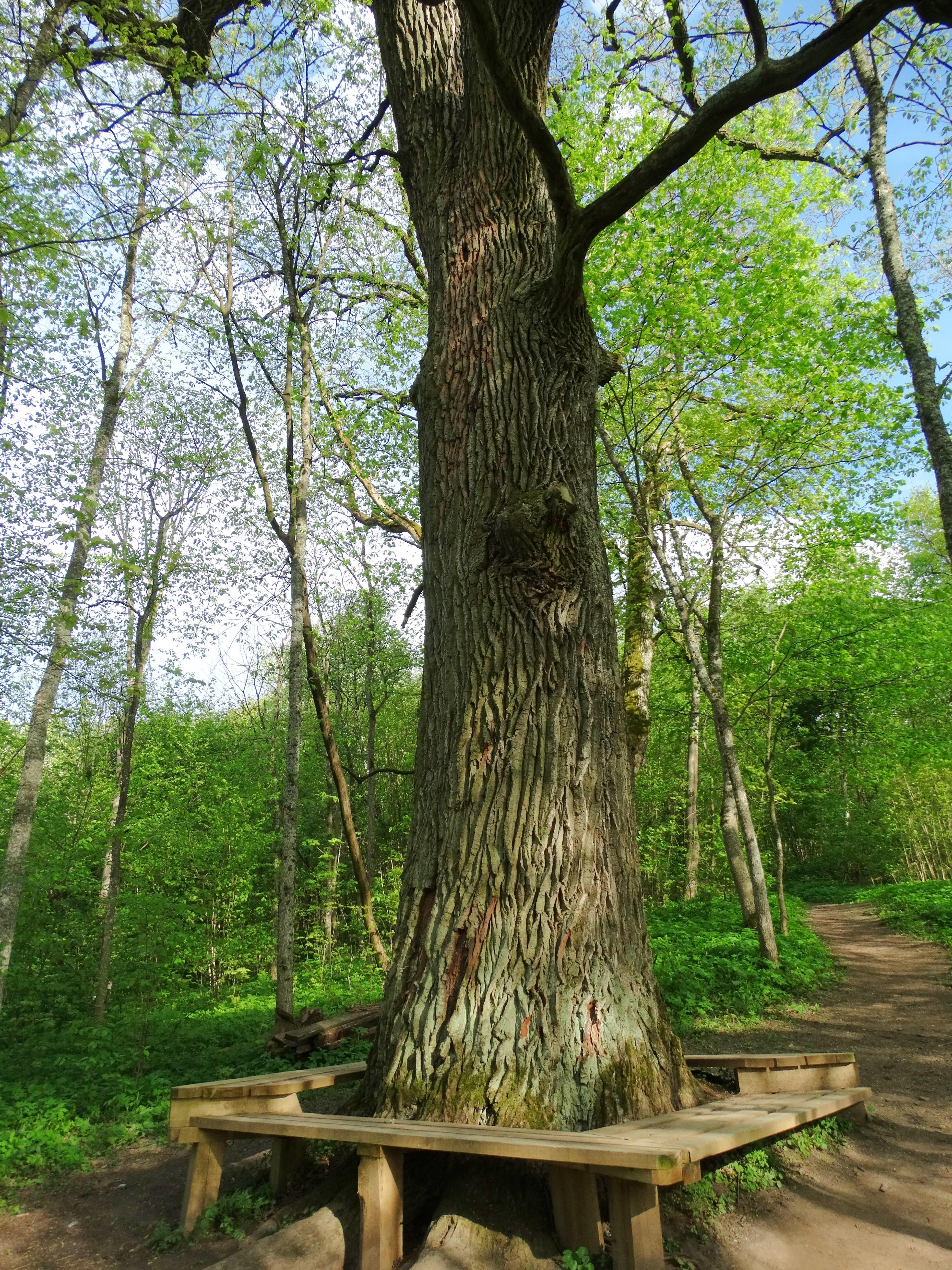 Sacred Daubų Oak, Vilnius District, Lithuania